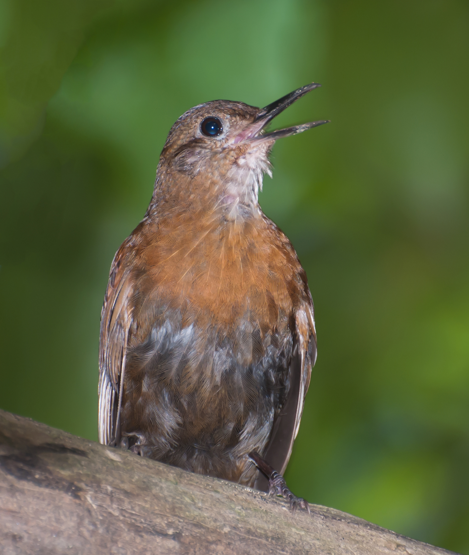 A Rufous-breasted Leaftosser in Parque Estadual da Serra da Cantareira, São Paulo, Brazil.